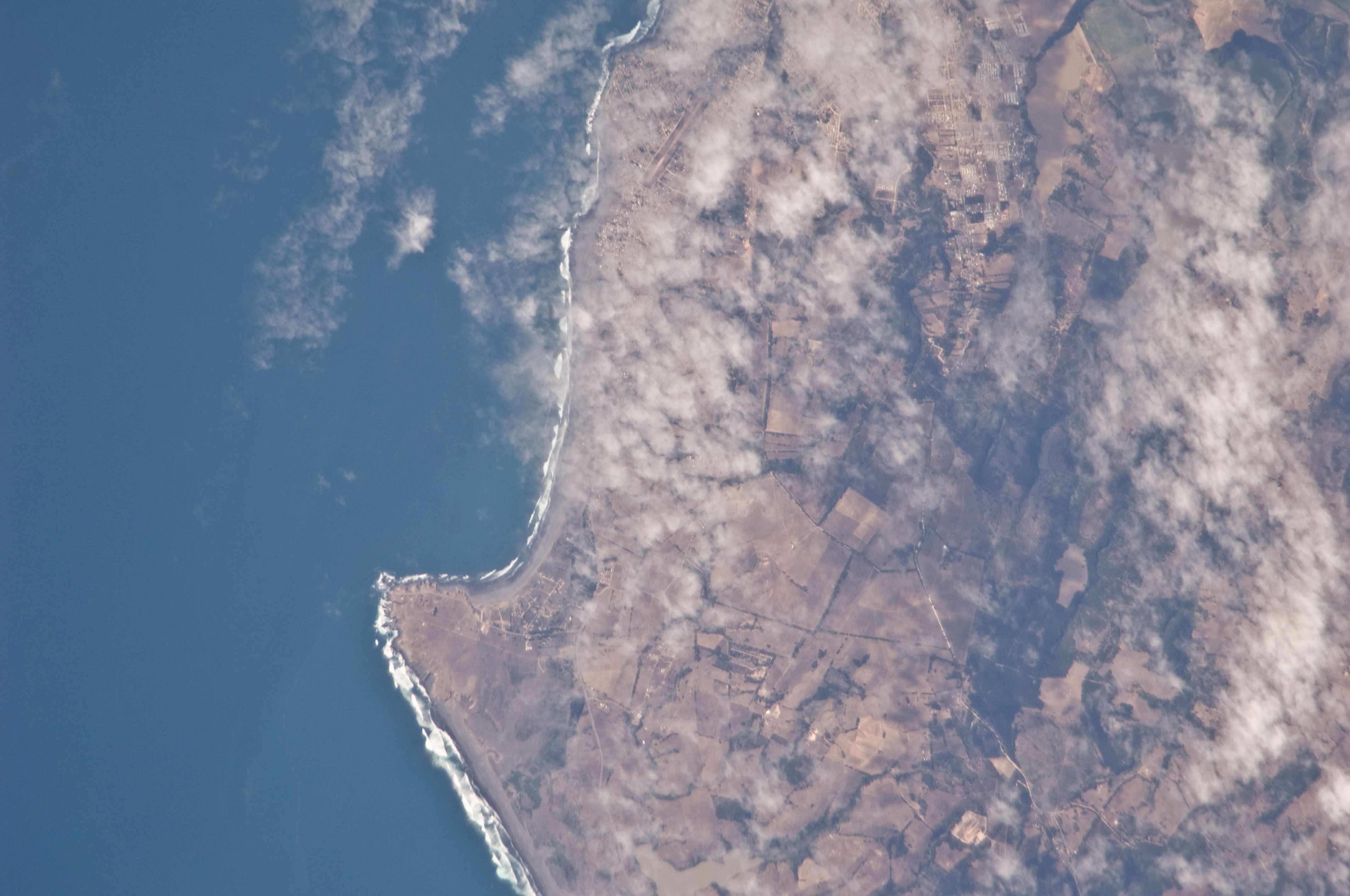 PICHILEMU, LOBOS POINT, COAST